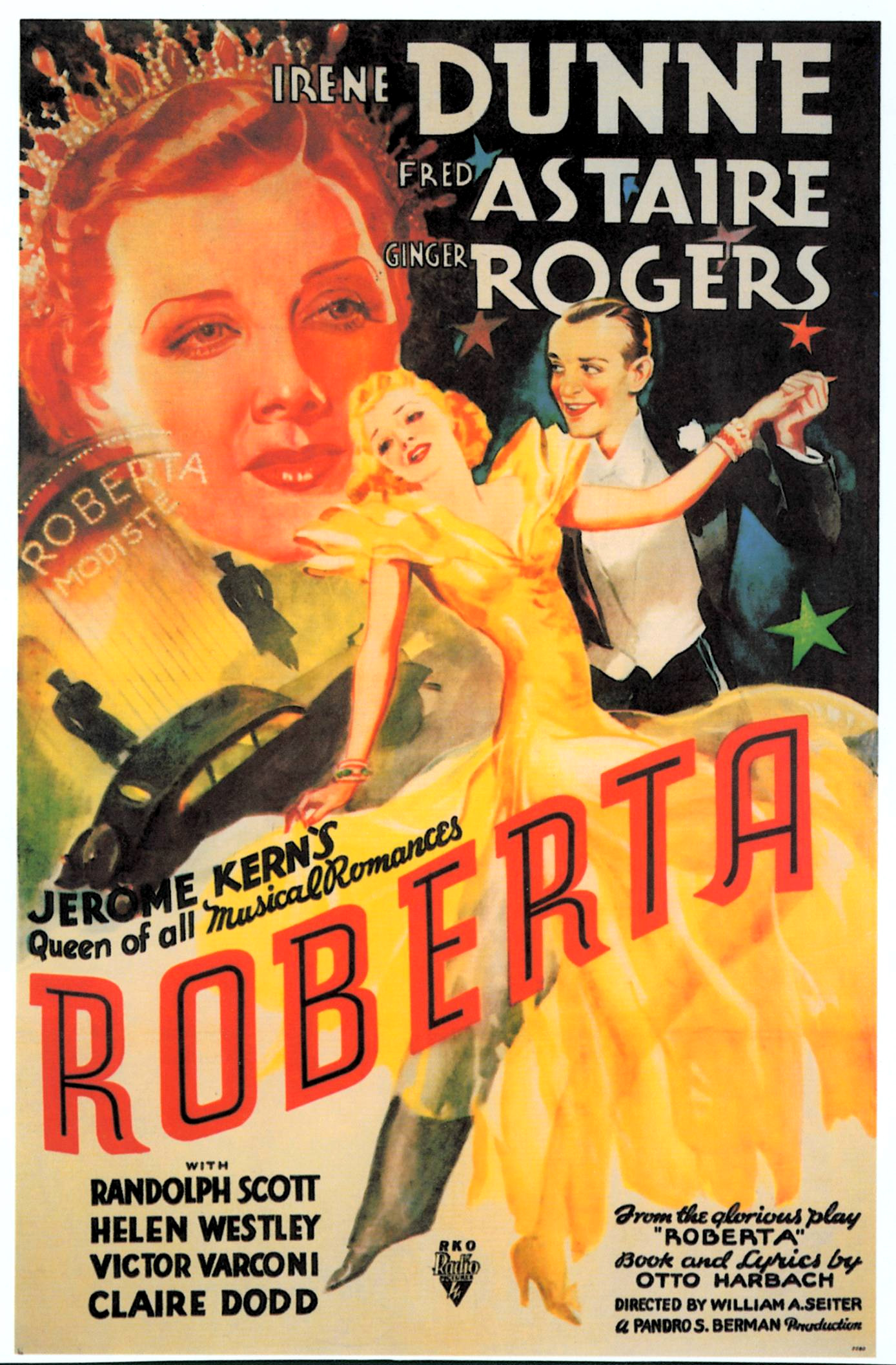 Poster for the 1935 film Roberta. The item has no copyright markings on it as can be seen in the links above.